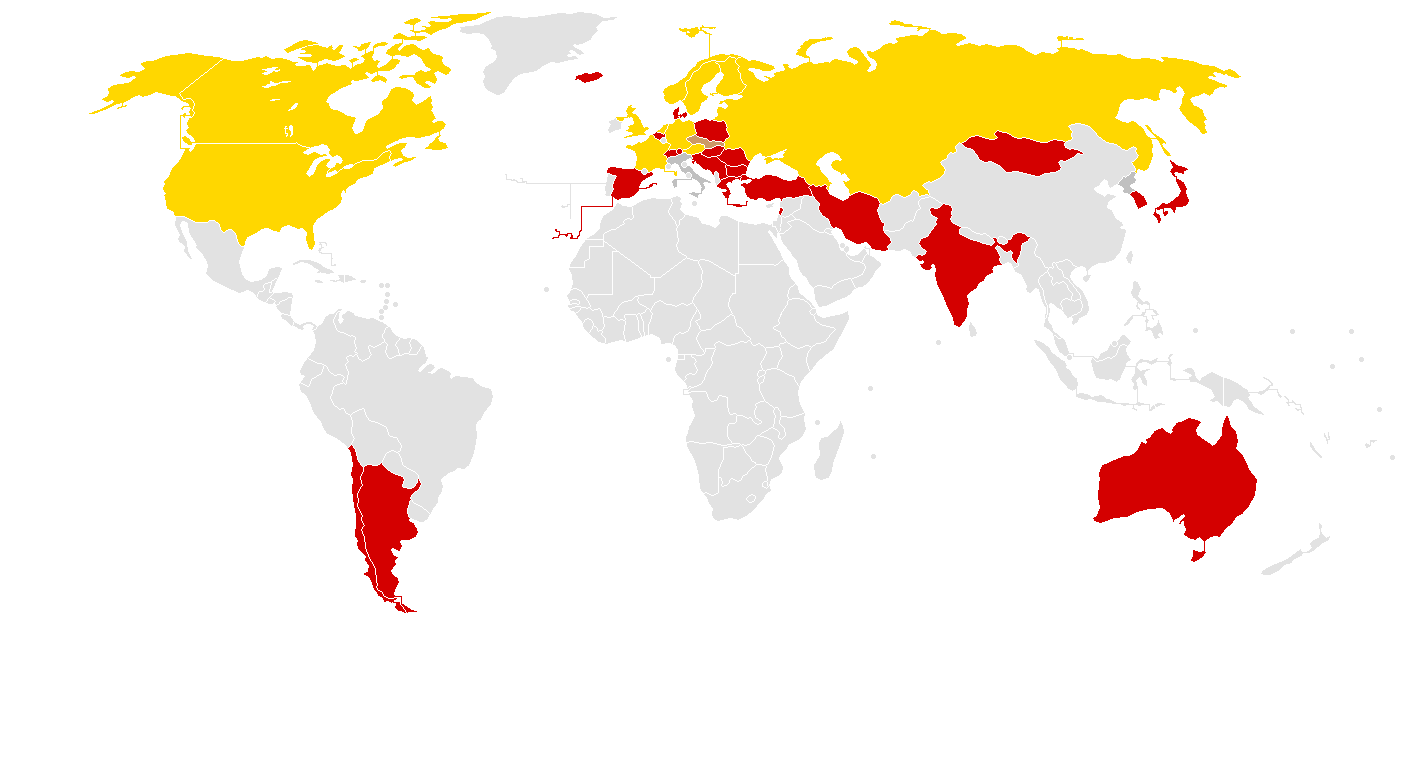 Countries with at least one gold medal Countries with at least one silver medal Countries with at least one bronze medal Countries that didn't get any medal Countries that did not participate